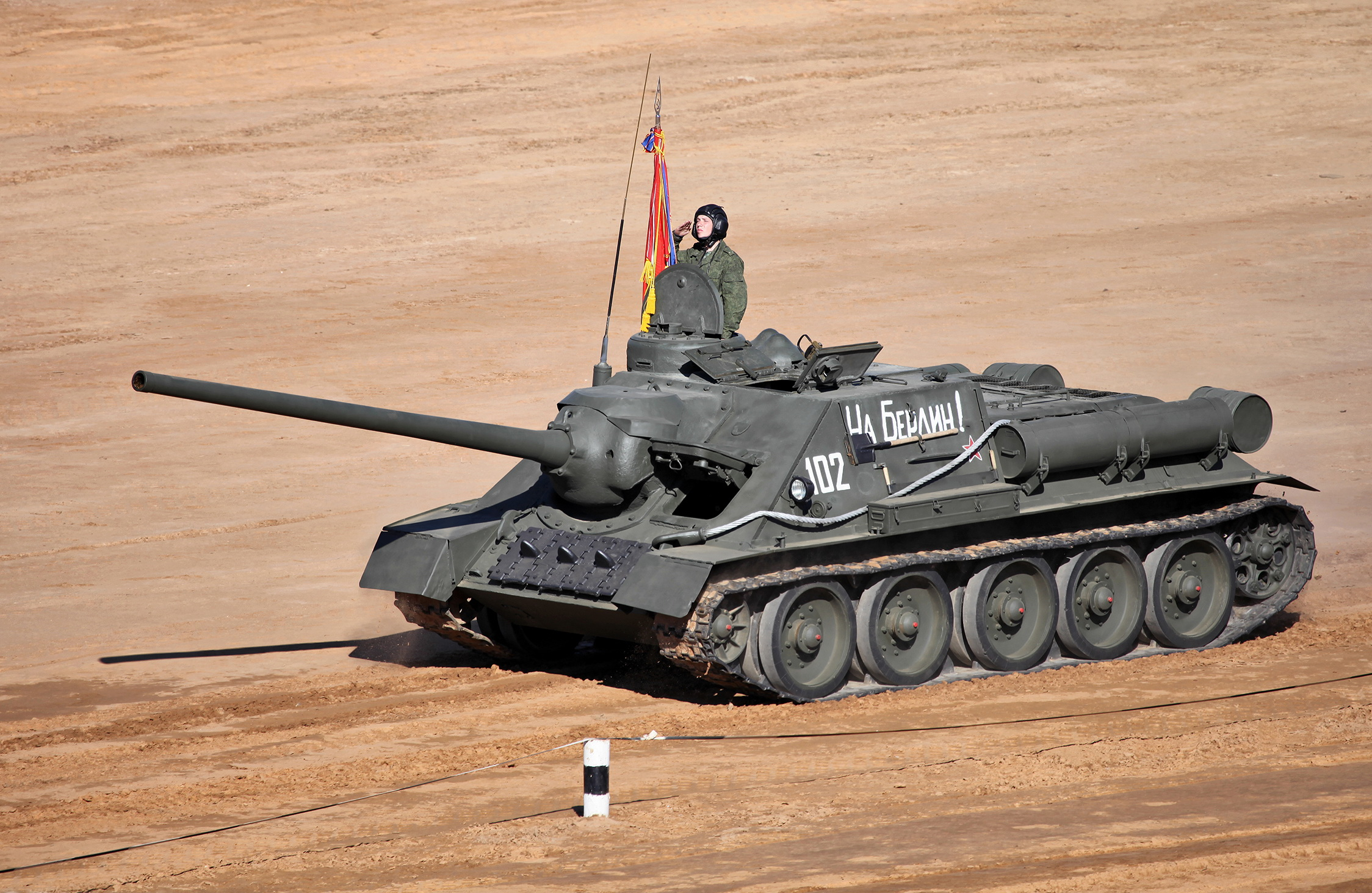 Su-100